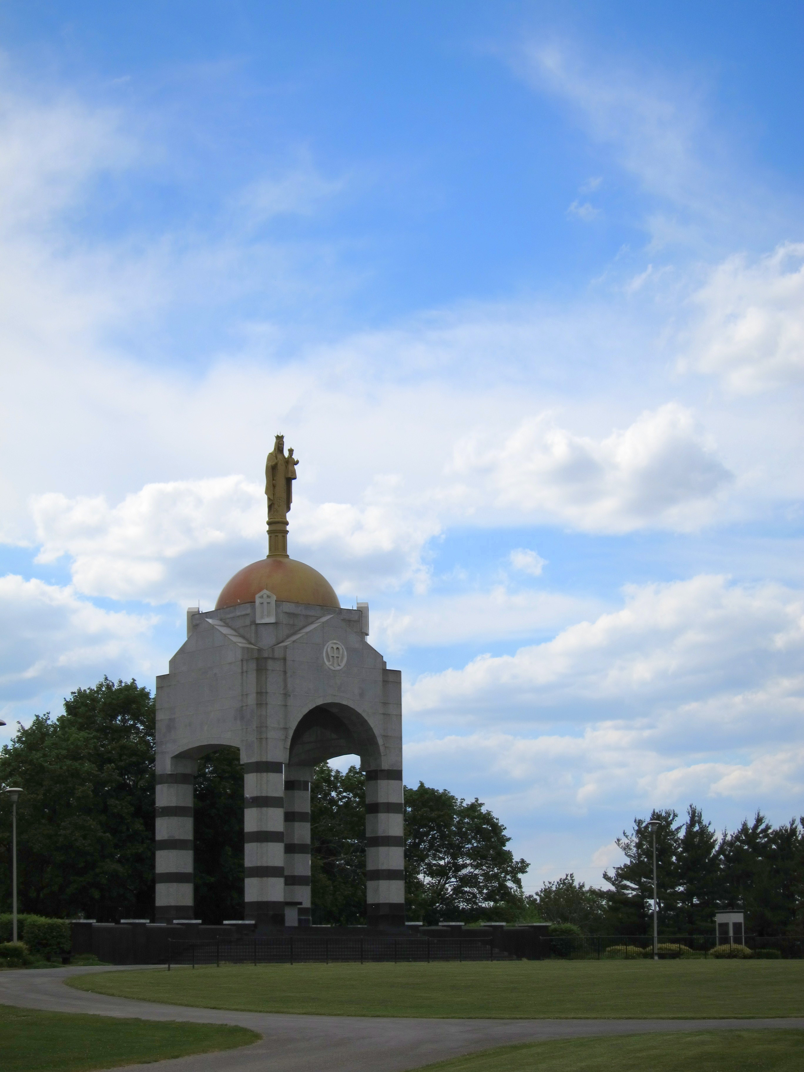 Our Lady of Consolation (Carey, Ohio) - Shrine Park altar